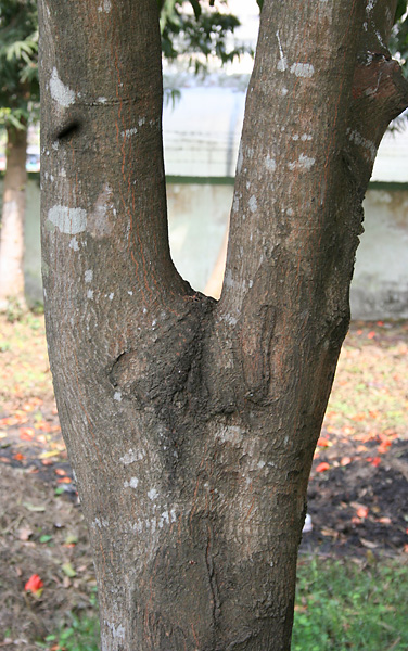 Maulsari Mimusops elengi in Kolkata, West Bengal, India.